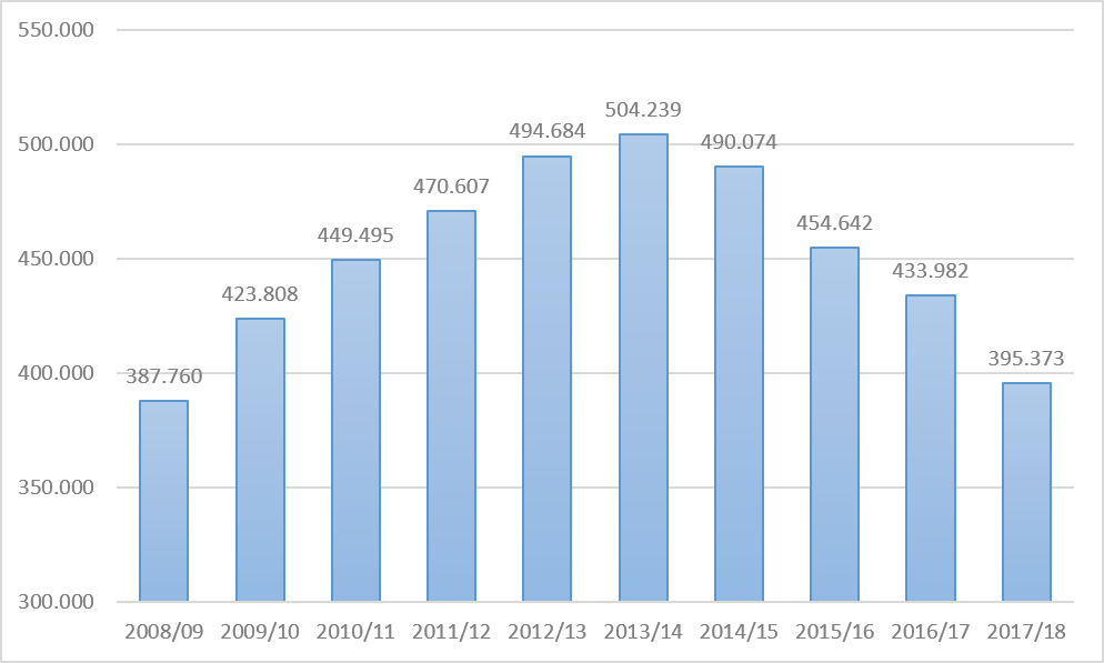 Evolution of student numbers in Spanish EOIs from course 2008/09 to course 2017/18. Data taken from yearly reports of Ministerio de Educación y Formación Profesional, accessible in